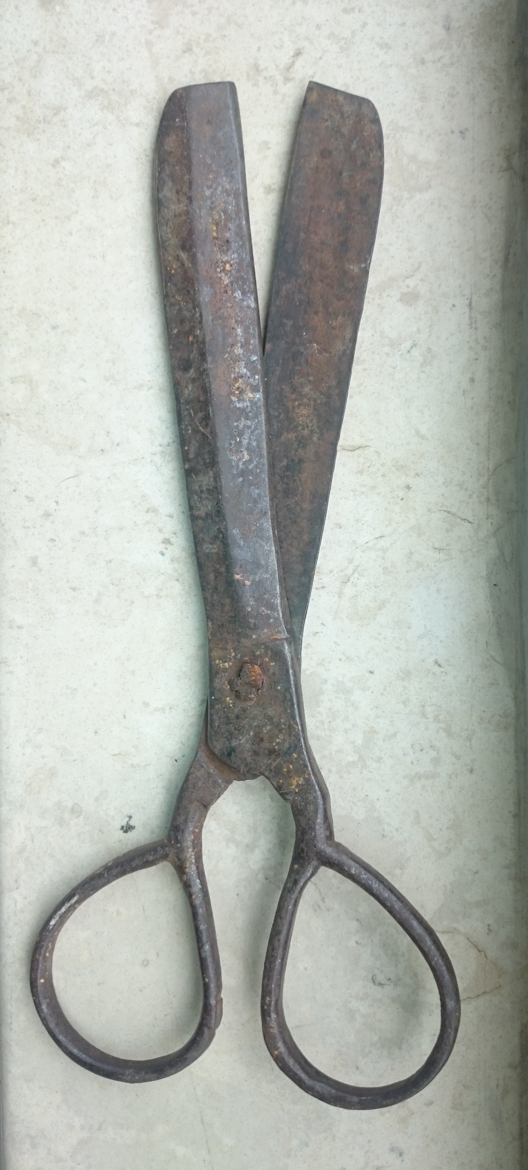 The scissors with which Vasil Levski's clothes were sewn by Ivan Naydenov Hassamski